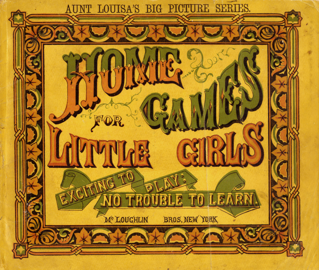 Laura Valentine, Home games for little girls - 01